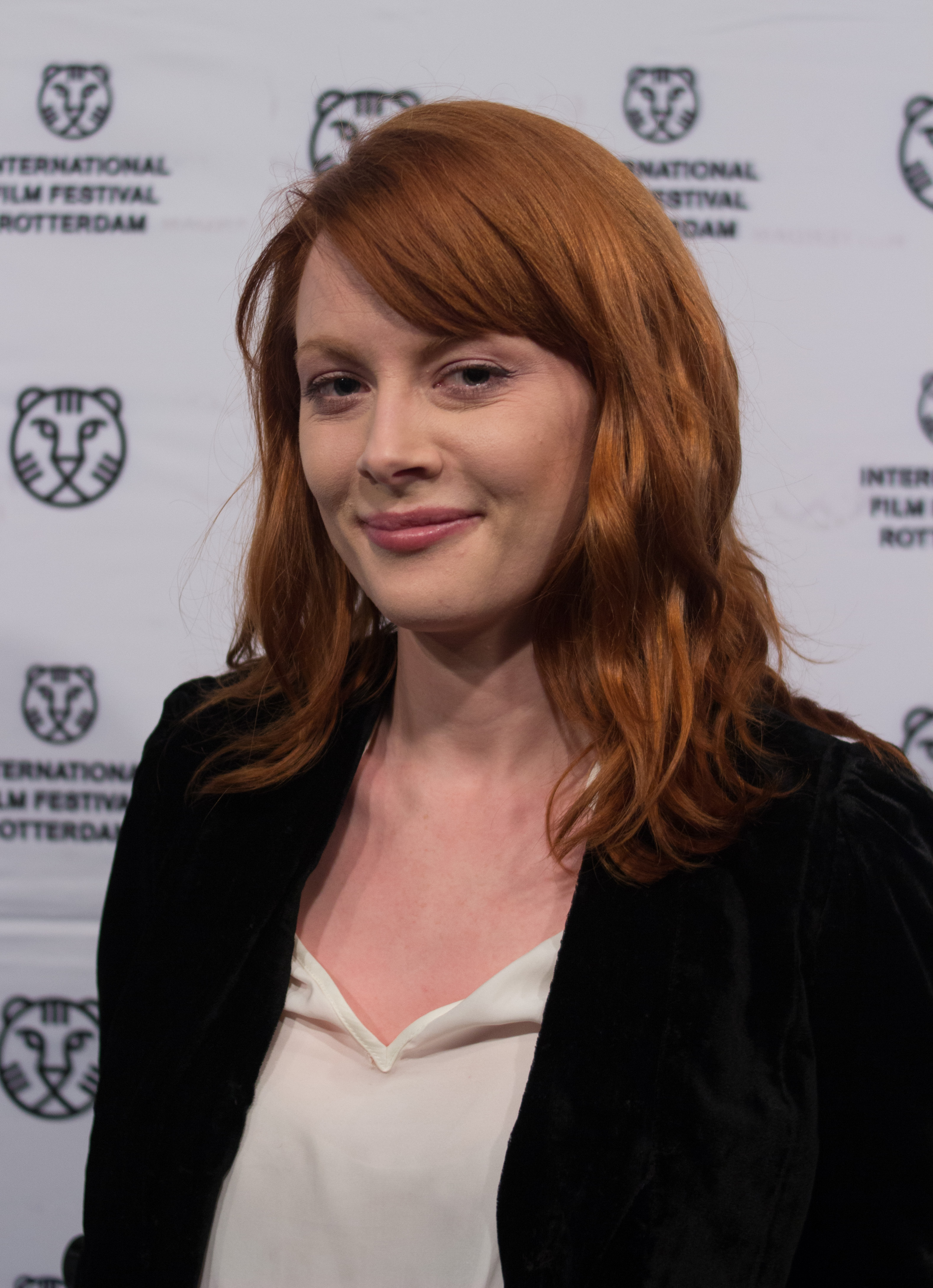 Filmmaker Peter Mackie Burns PremiereWorld premiereCountryUnited KingdomYear2017MediumDCPLength90LanguageEnglishProducerValentina Brazzini, Tristan GoligherProduction CompanyThe BureauSalesThe Bureau SalesWriterNico MensingaCinematographyAdam ScarthEditorNick EmersonProduction DesignMiren MarañónSound DesignJoakim SundströmCastEmily Beecham